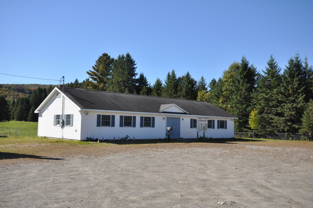 Town offices, Lemington, Vermont.